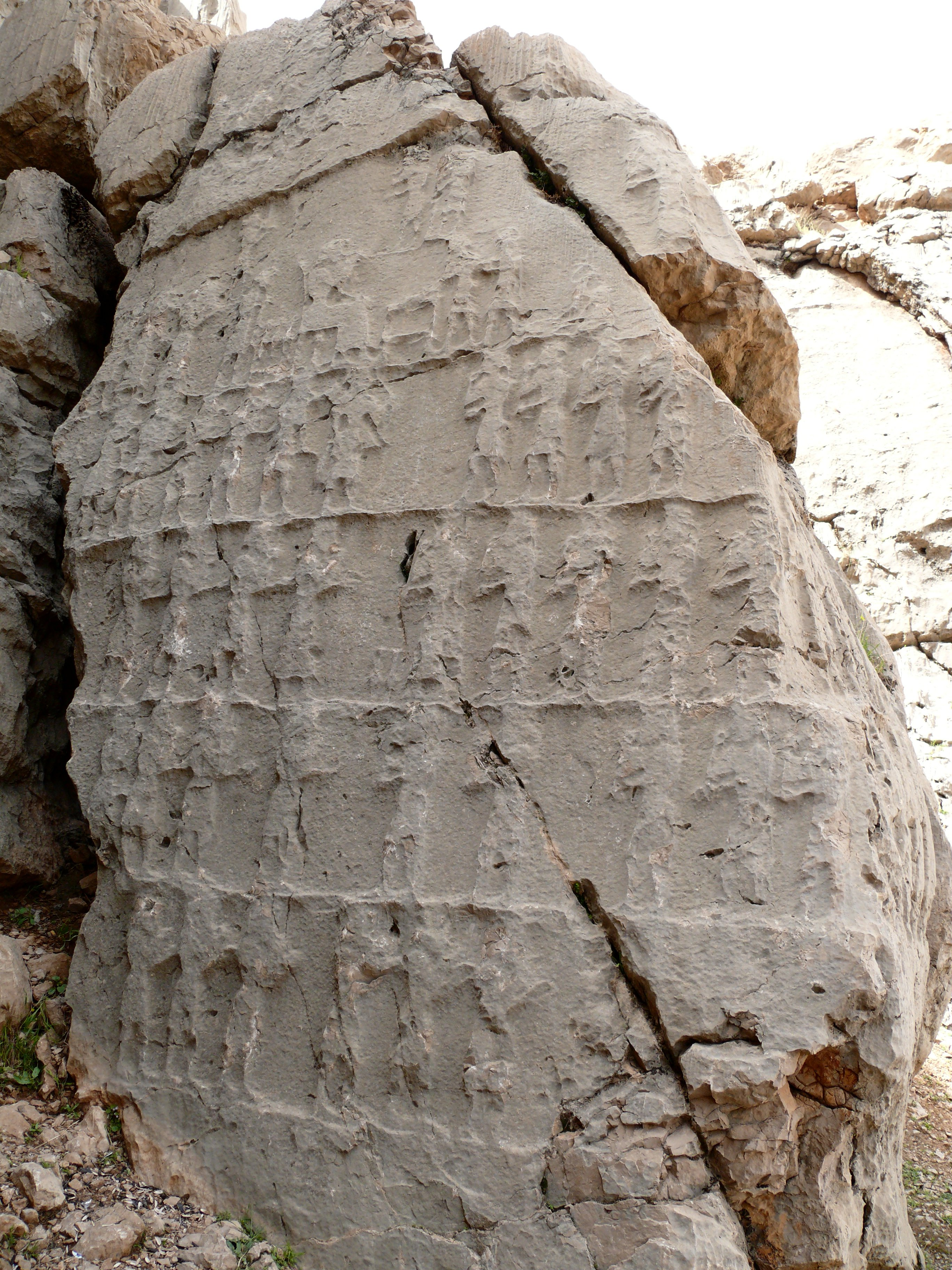 Detail of a part of the multisurfaced elamite rock relief said “Kul-e farah IV” depicting a religious office with animal sacrifice, with representation of Priest & enthroned king, and prayers. Multiple ranks of characters are carved on multiple plane surfaces of the rock. VIIIth to VIIth century BCE. Site of Kul-e Farah, city of Izeh, Khouzestan province, Iran